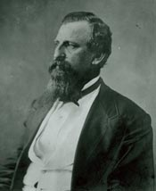 Former congressman William B. Anderson of Illinois.